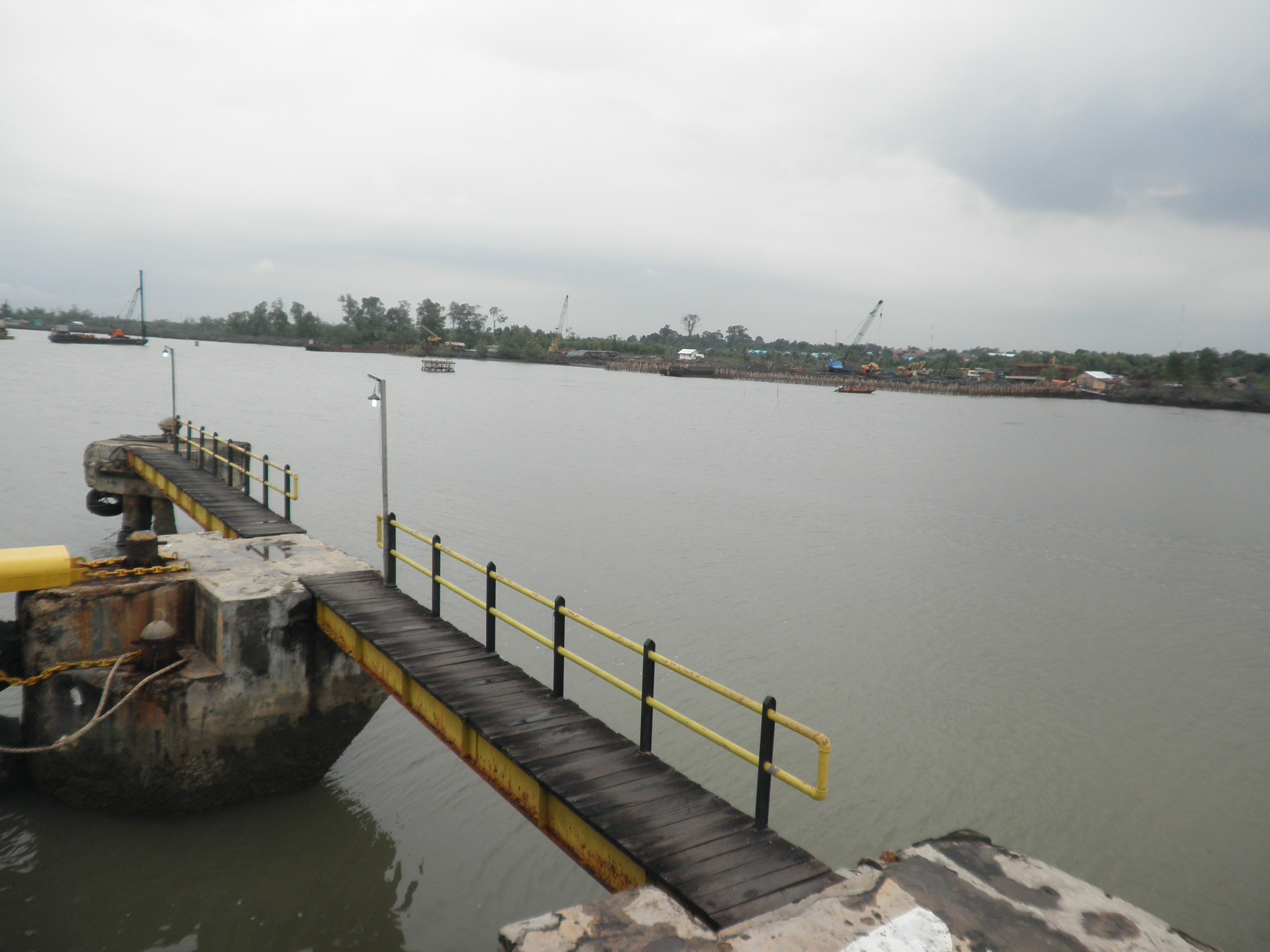 Ferry Port Batulicin